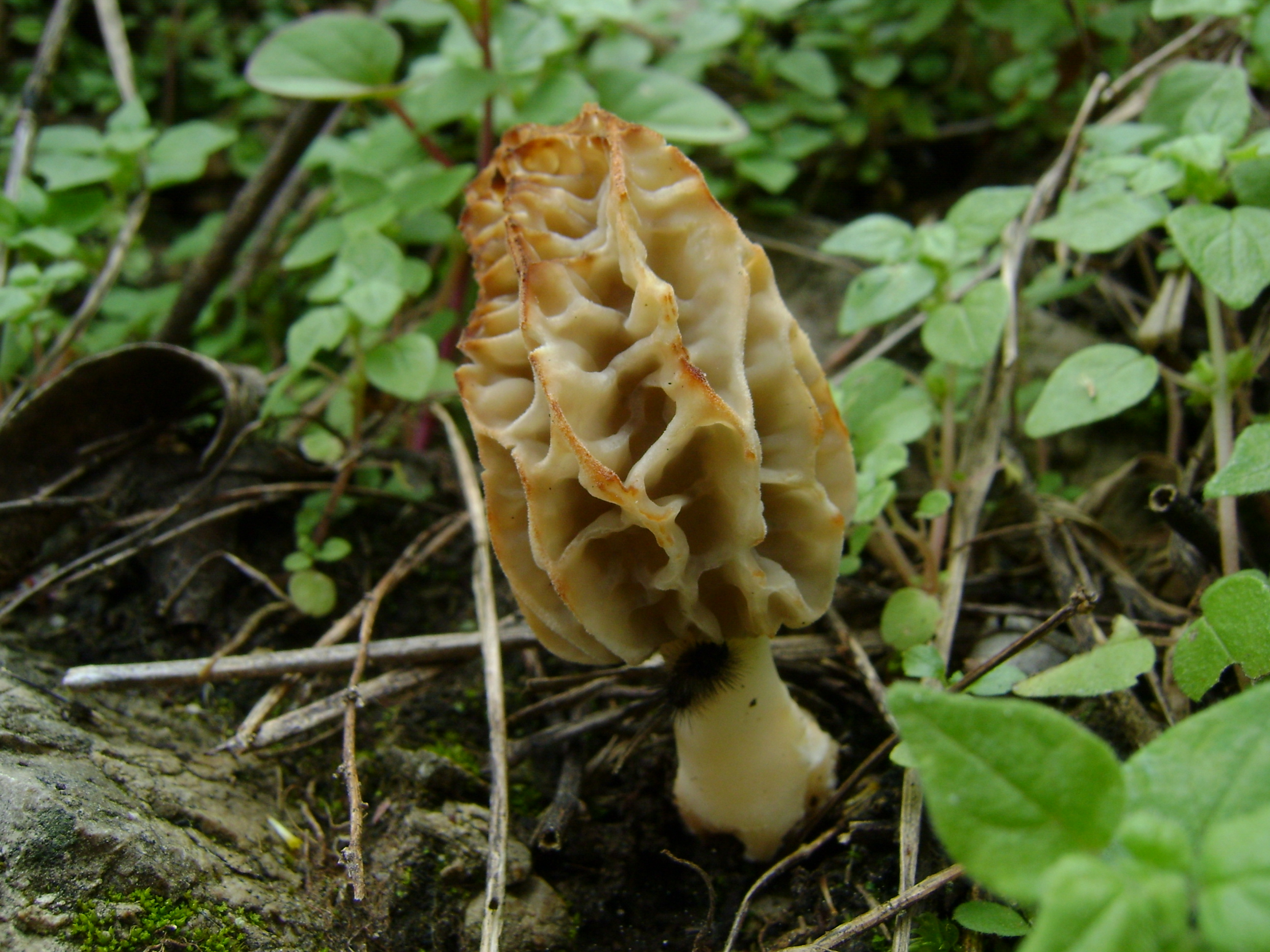 A fruit body of the morel fungus Morchella rufobrunnea Guzmán & F.Tapia. Photographed in San Cristóbal de Las Casas, Chiapas, Mexico.